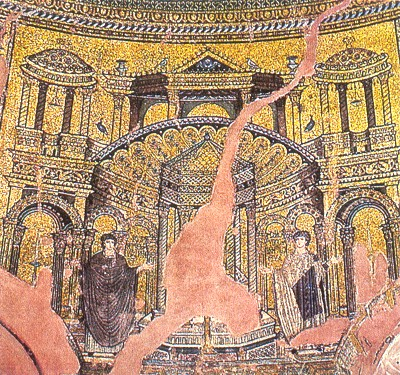 Saints Onesiphoros and Porphyrios, mosaic in Saint Georges Rotunda